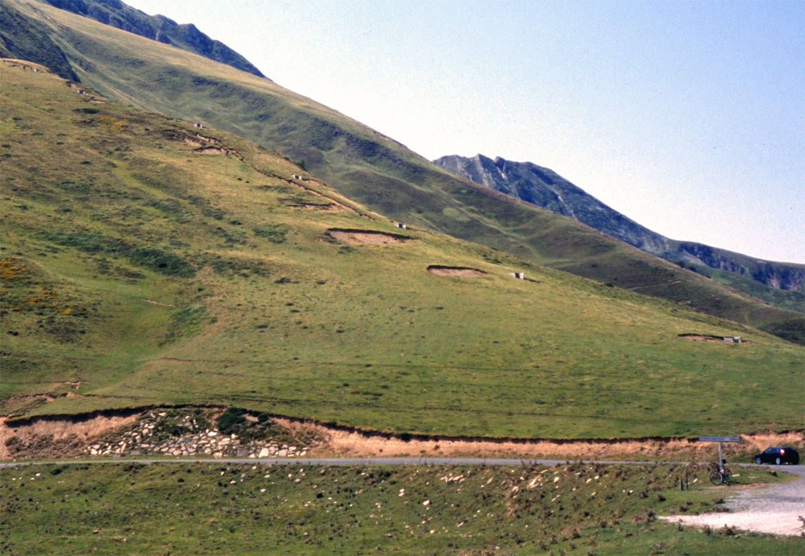 Col d'Erroimendy, french Pyrenees